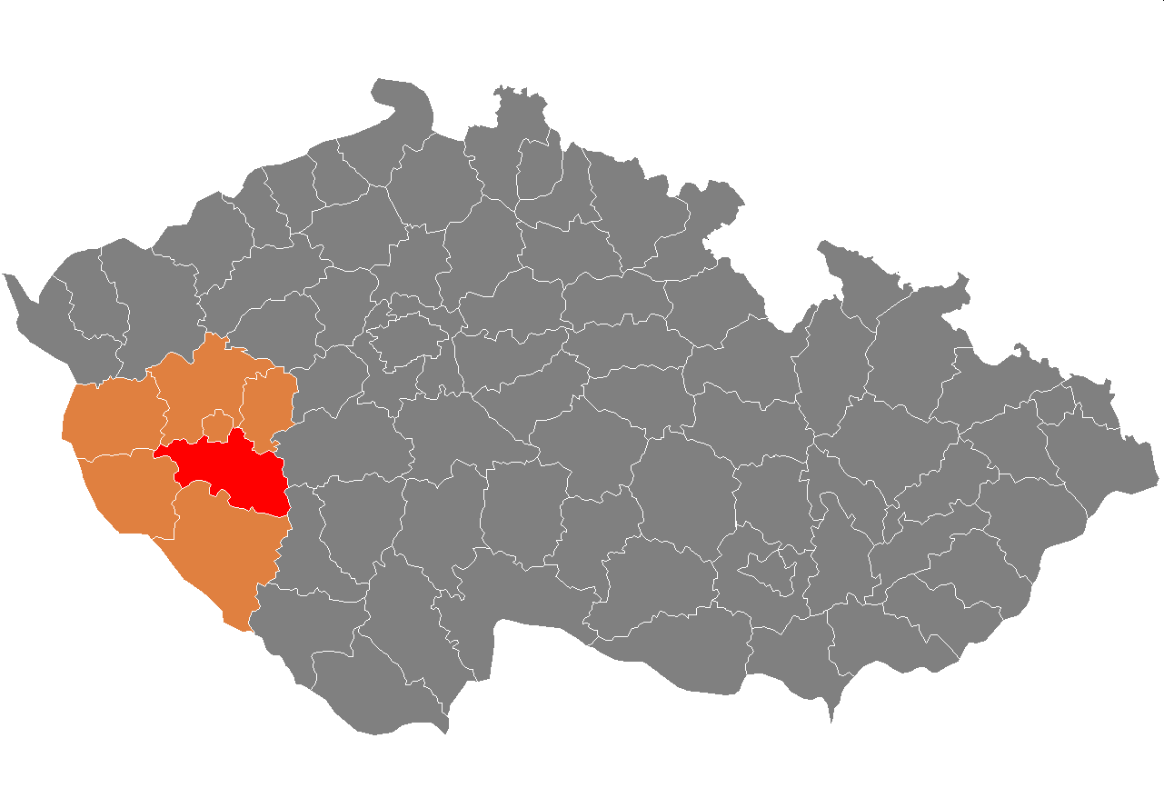 Plzen-South District within CR